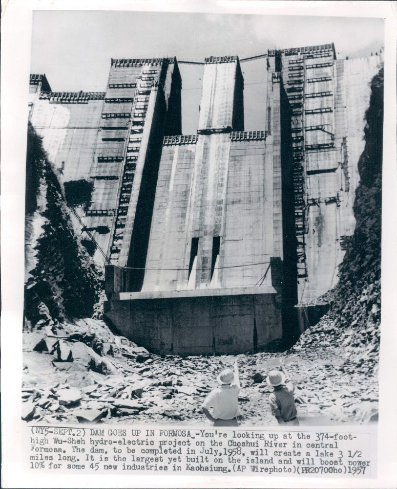 Wu-Sheh Dam